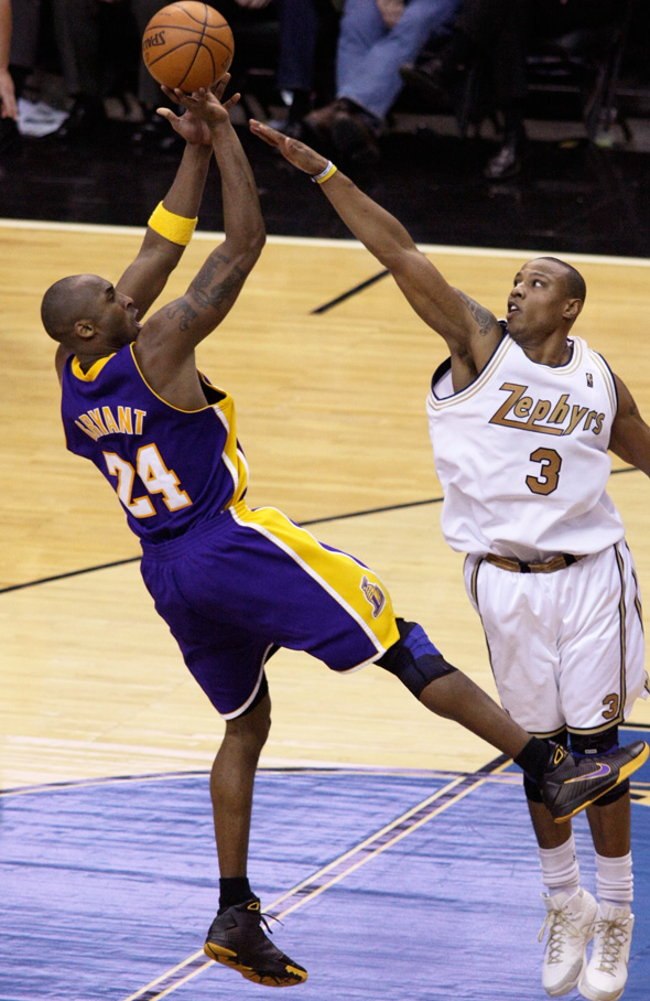 Kobe Bryant fades over Caron Butler.